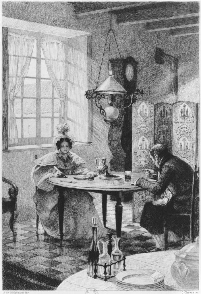 Illustration of Madame Bovary by Gustave Flaubert (1821-1880): Meal Time at the Bovary's